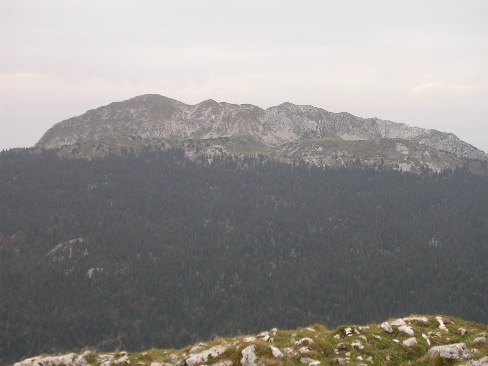 my own photograph